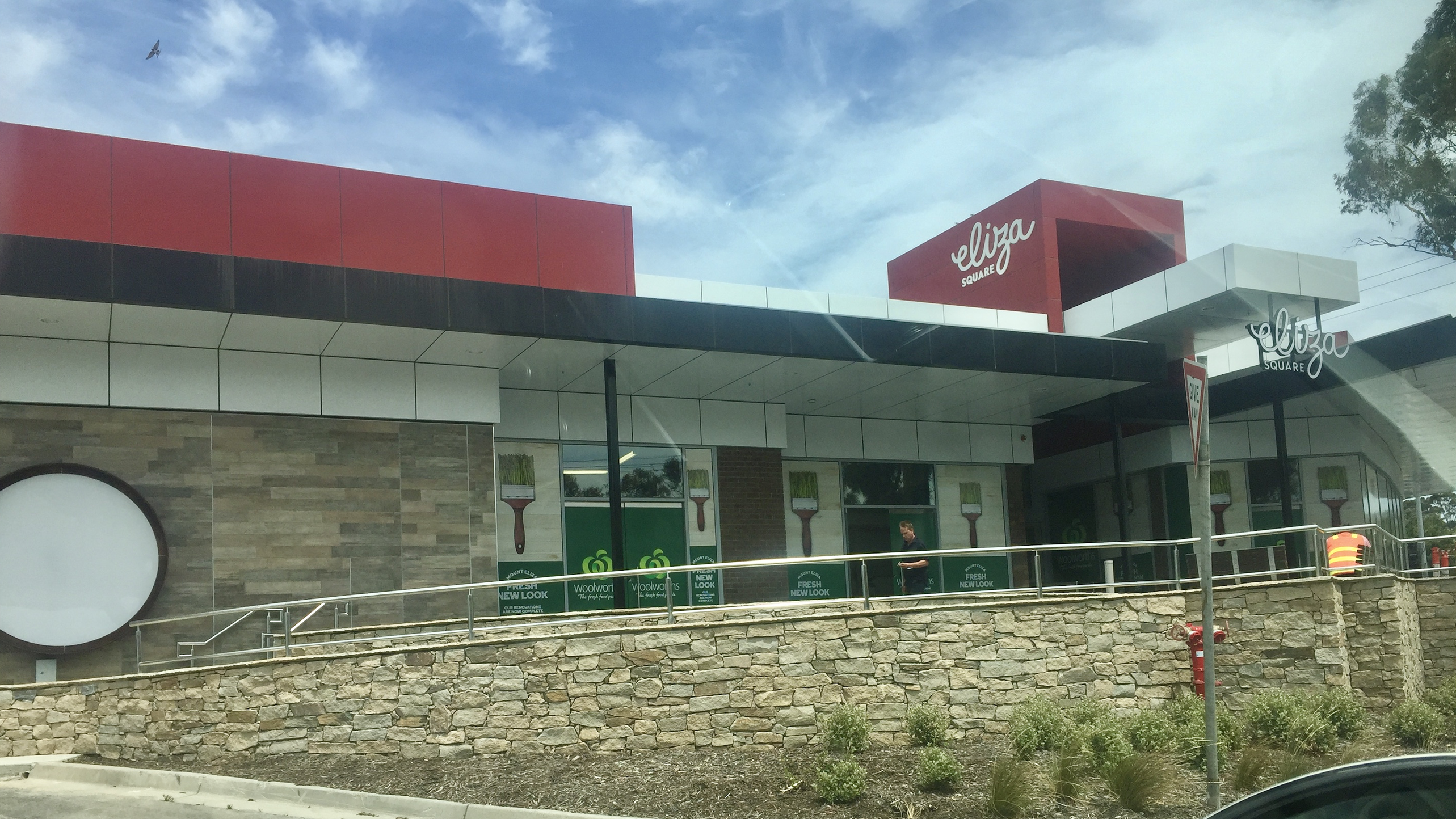 Mount Eliza Shopping Centre